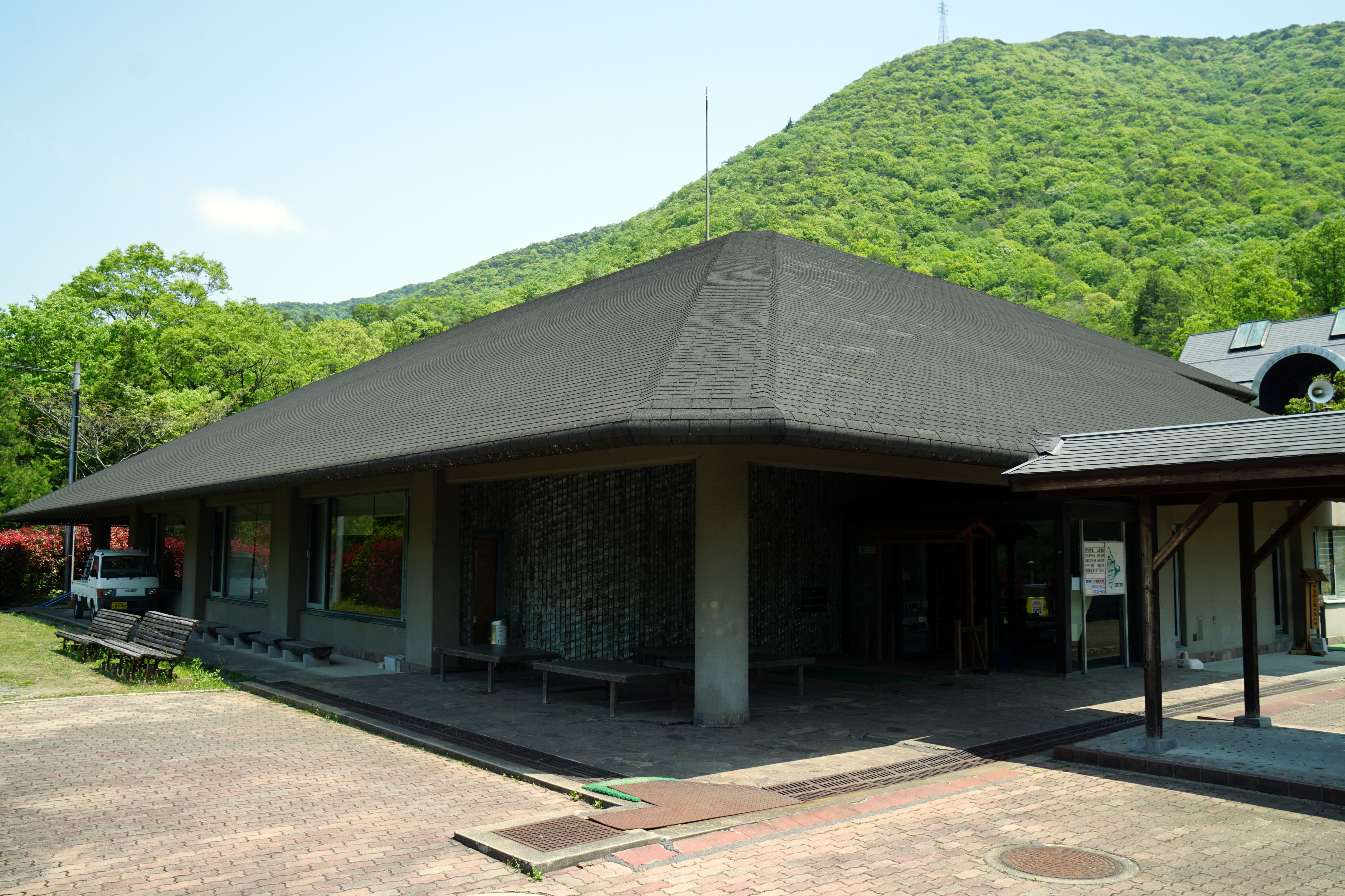 Tamba Traditional Art Craft Park Sue no Sato in Sasayama, Hyogo prefecture, Japan.